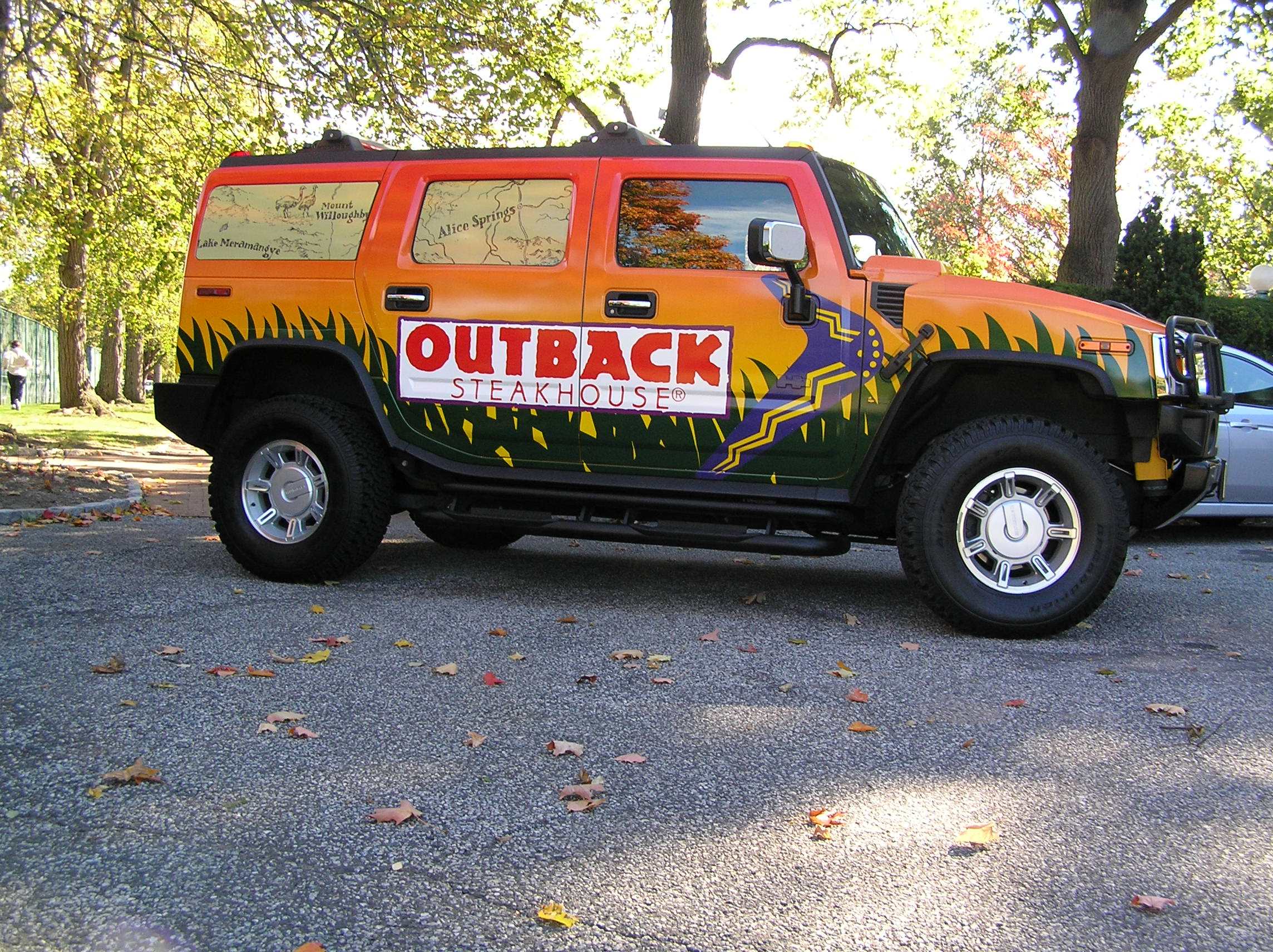 The hummer vehicle that Outback Steakhouse uses for advertising